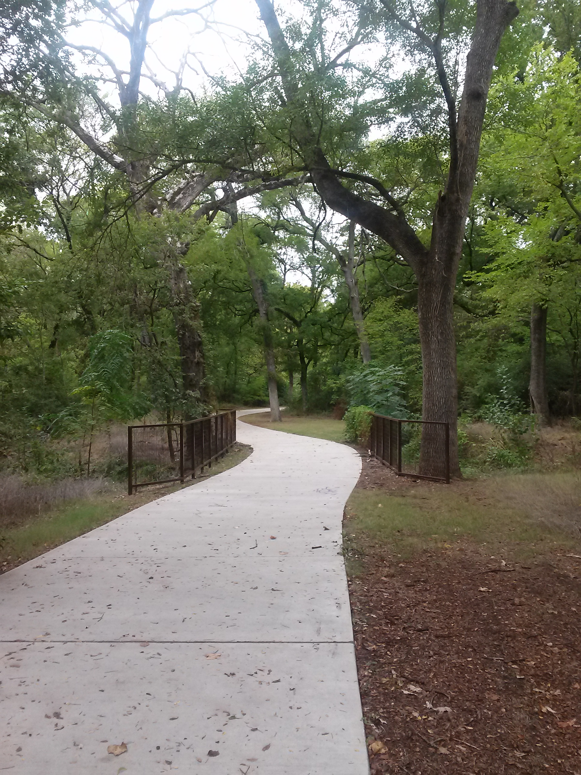 Spring Creek forest reserve in north Garland